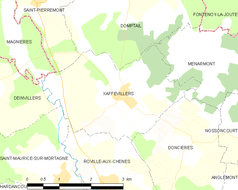 Map of French municipality Xaffévillers